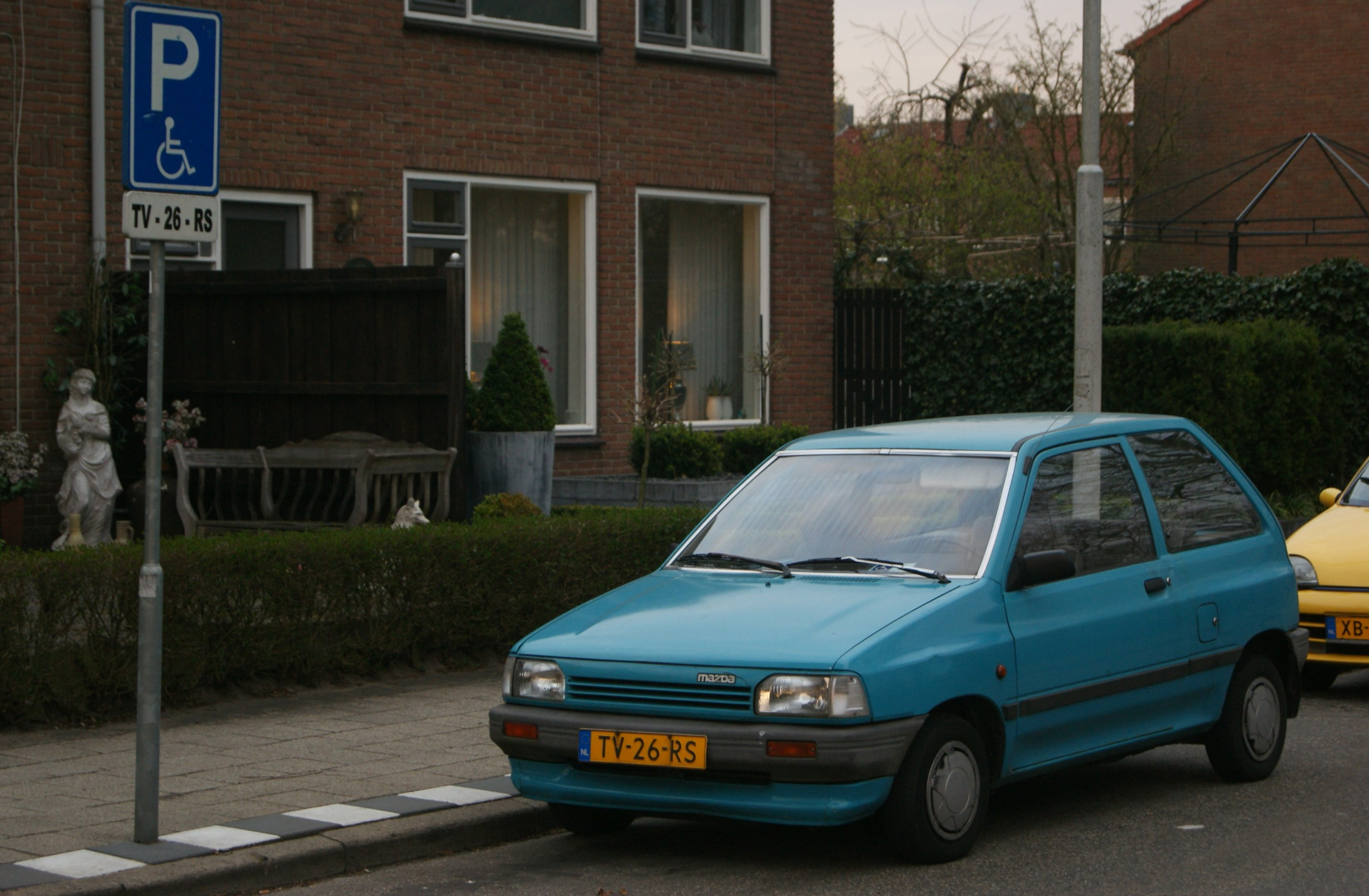 TV-26-RS Still from the first owner!